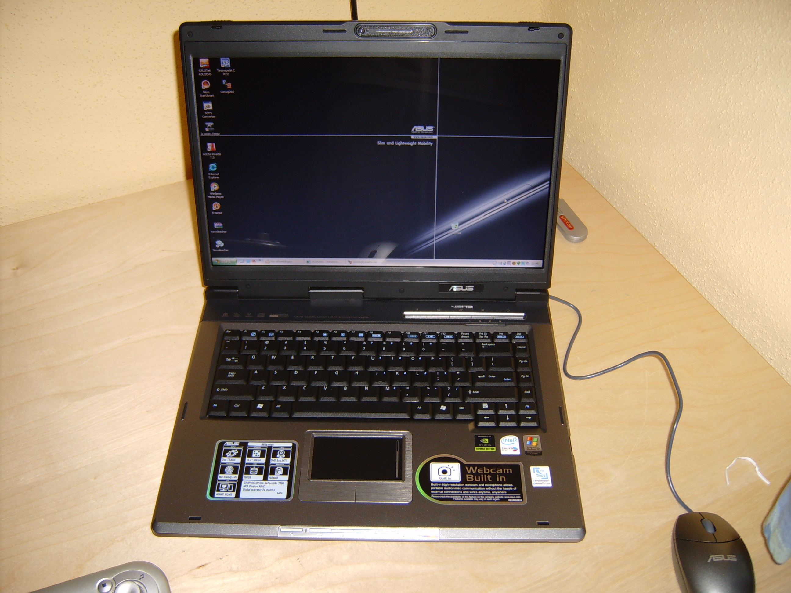 ASUS A6JC laptop. The logos shown in this picture are copyright.